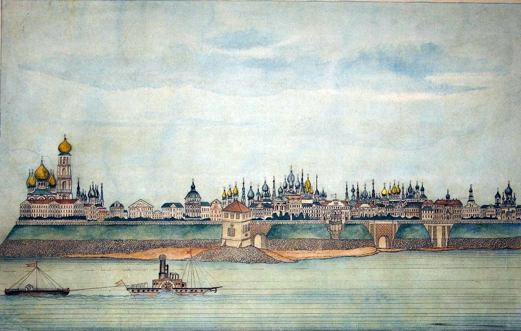 Vasily Grigorievich Bashkov. View of Yaroslavl in 1856.